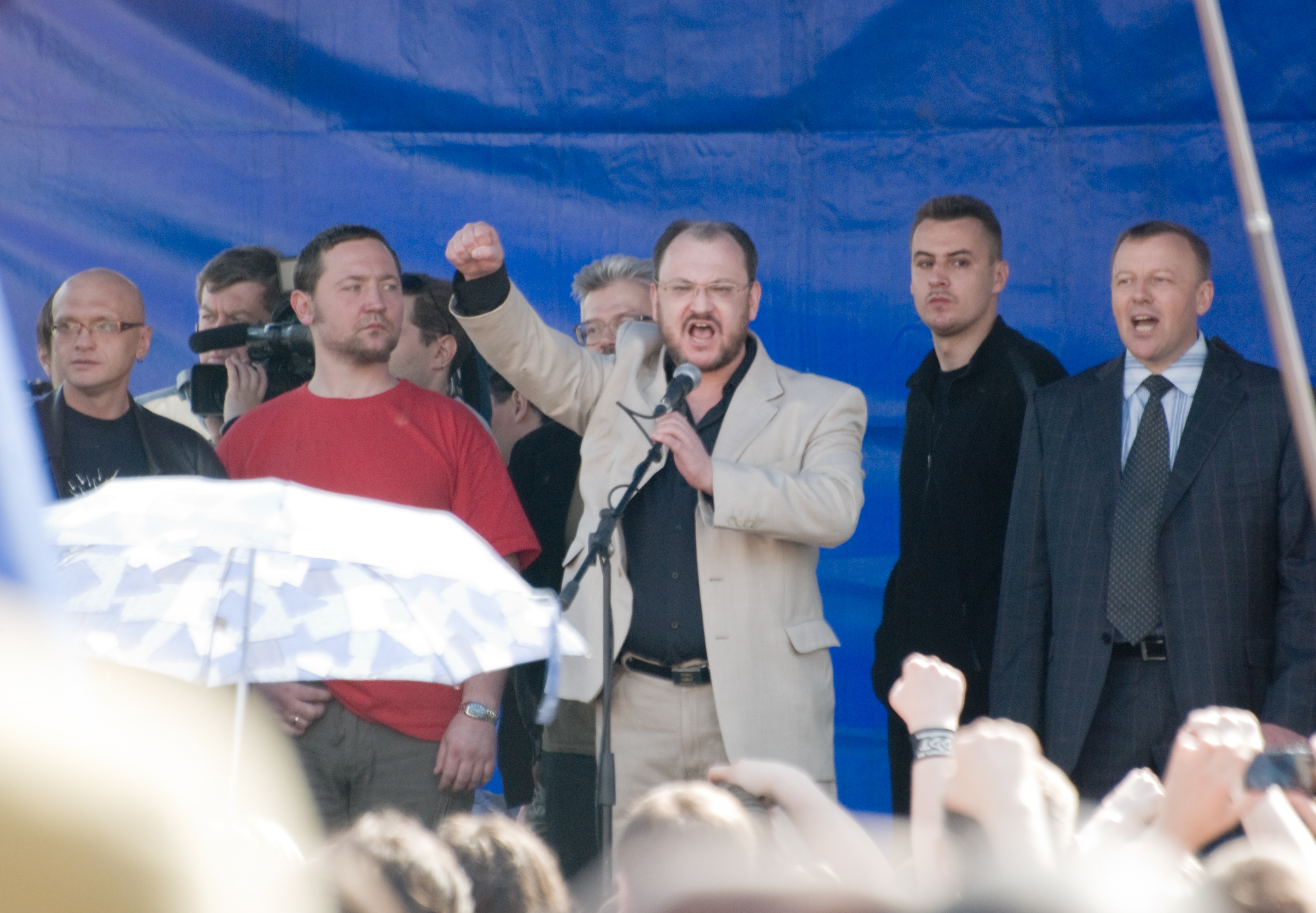 March, 1 may 2008, Pioner Square, Saint Petersburg